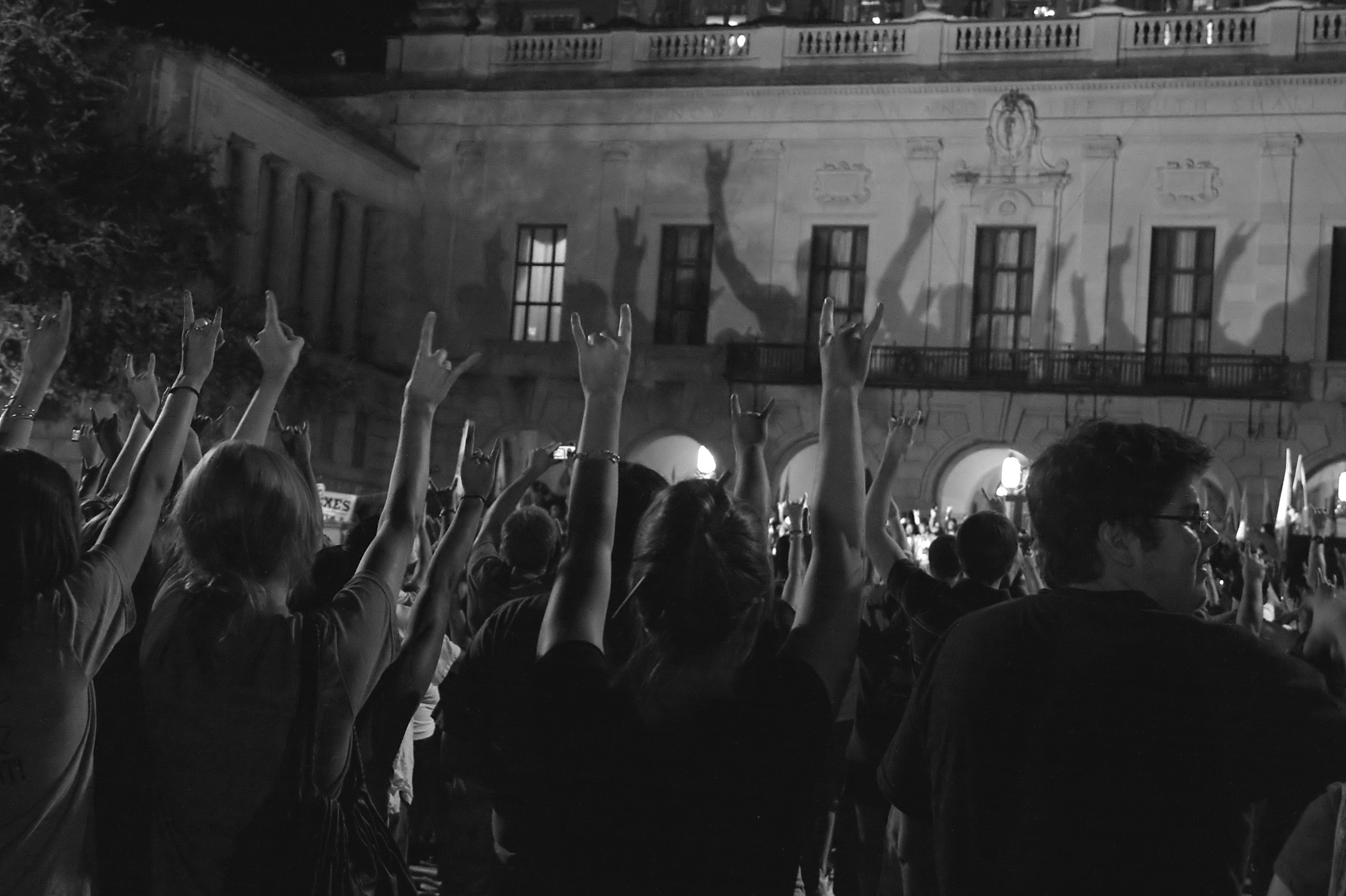 The 2007 Torchlight Parade in Austin Texas on the UT campus leading up to the OU vs UT Red River Shootout. See also 2007 Texas Longhorn football team.